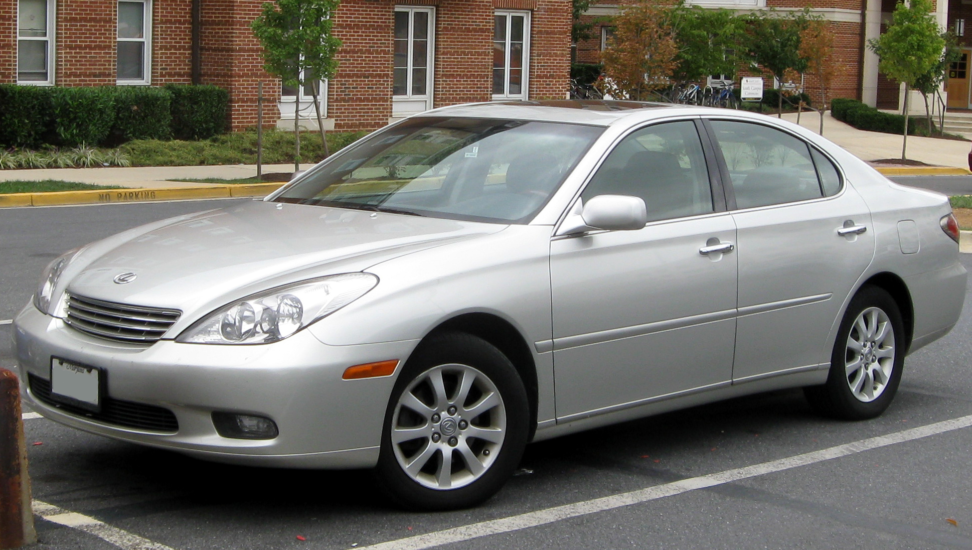 2002-2004 Lexus ES300 photographed in College Park, Maryland, USA.